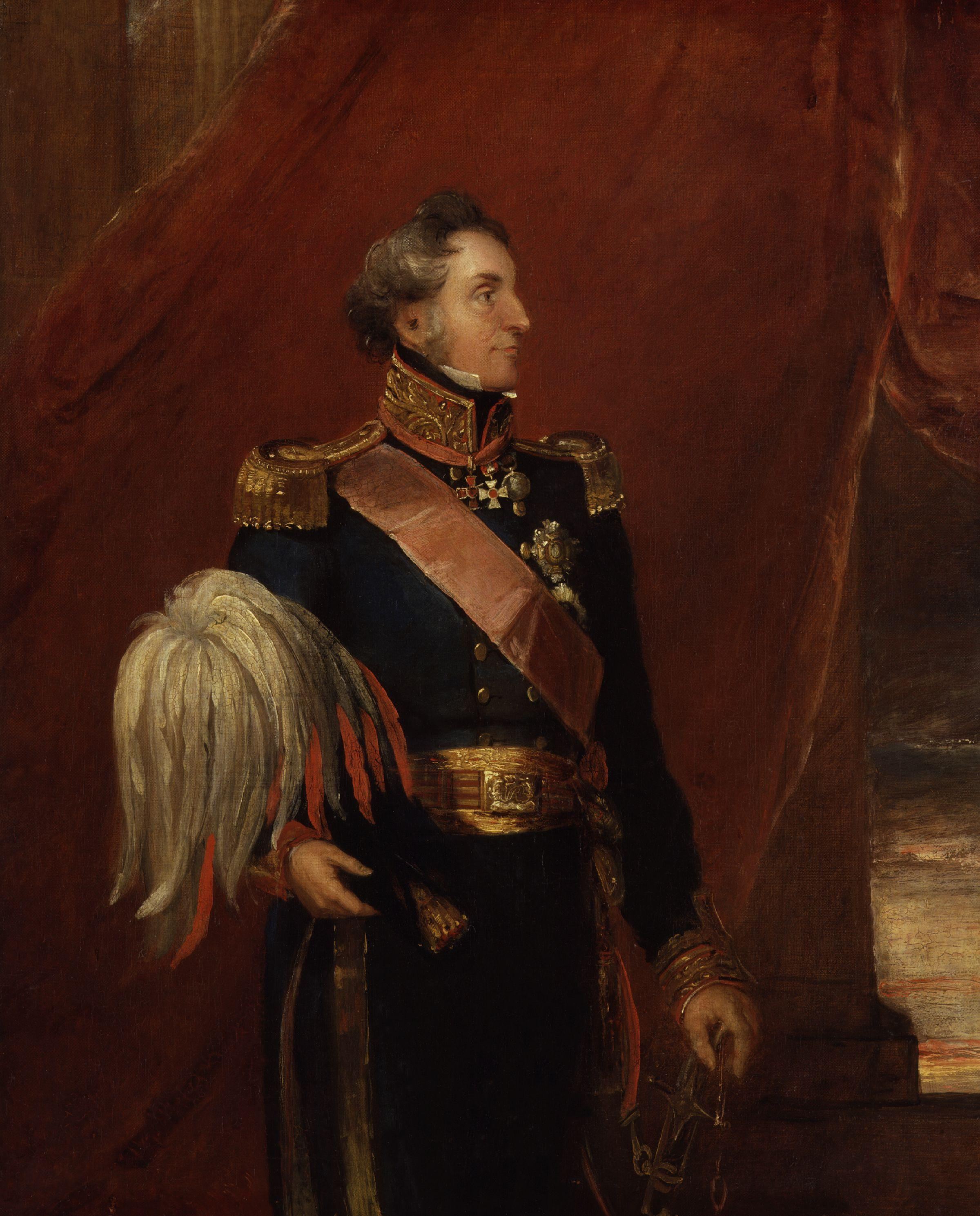 Richard Hussey Vivian, 1st Baron Vivian, by William Salter (died 1875). All images in this batch have been confirmed as author died before 1939 according to the official death date listed by the NPG.